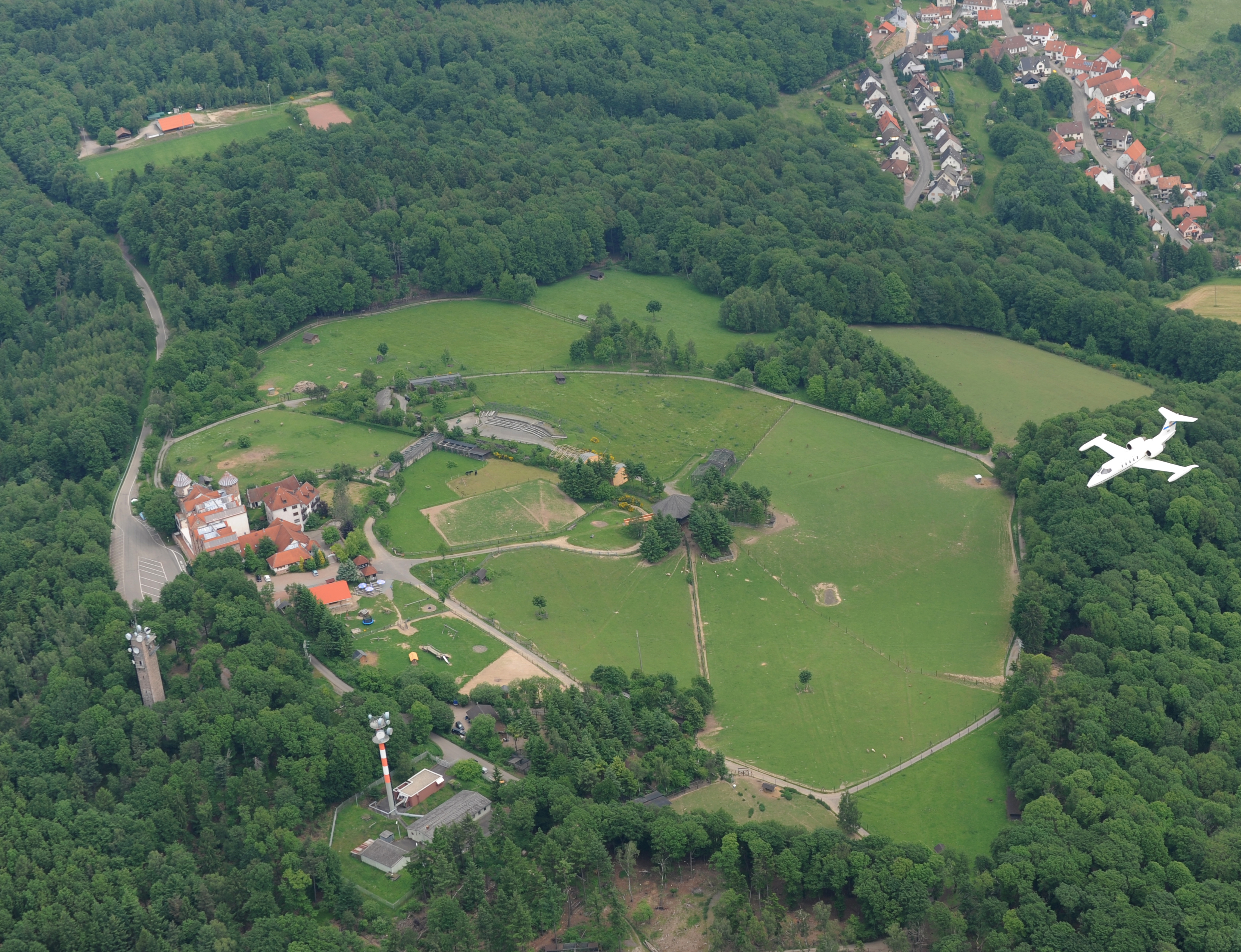 A C-21A flies by Potzberg Castle in Germany, June 8, 2010. C-21A's are used on Ramstein by the 76th Airlift Squadron for distinguished visitors and patient transport. (U.S. Air Force photo by Airman 1st Class Caleb Pierce)